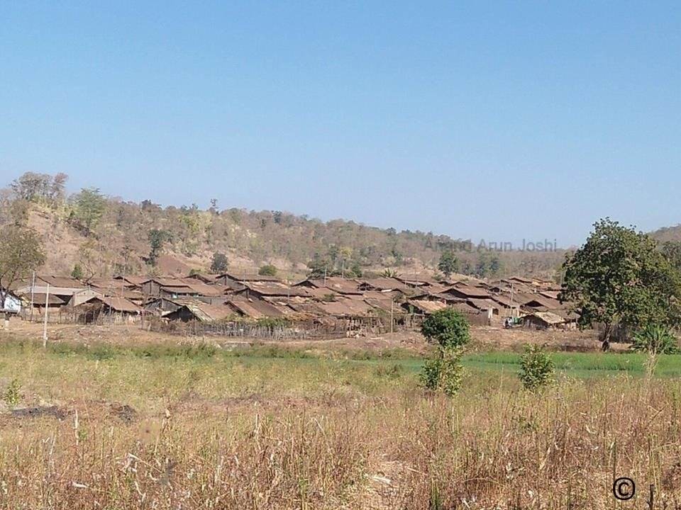 Village photo from far